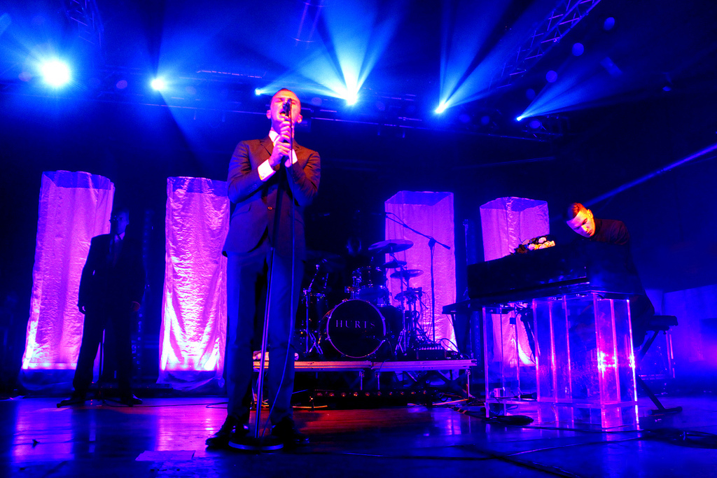 English band "Hurts" while performing at "Magazzini Generali" in Milano, Italy